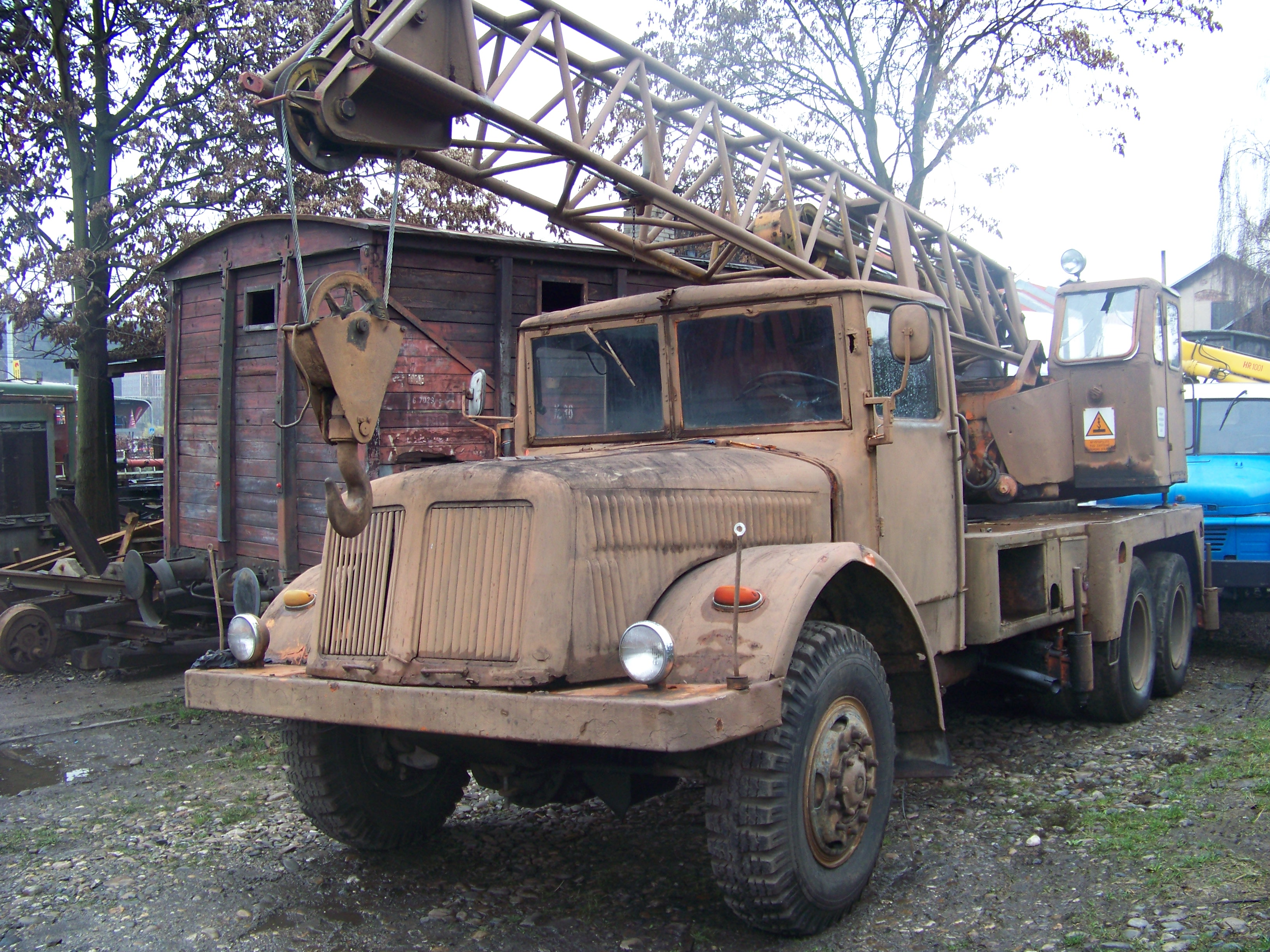 Prague, Smíchov, the Czech Republic. Tatra T111 crane truck.